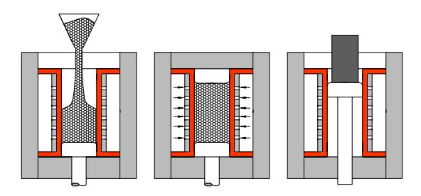 Drybag